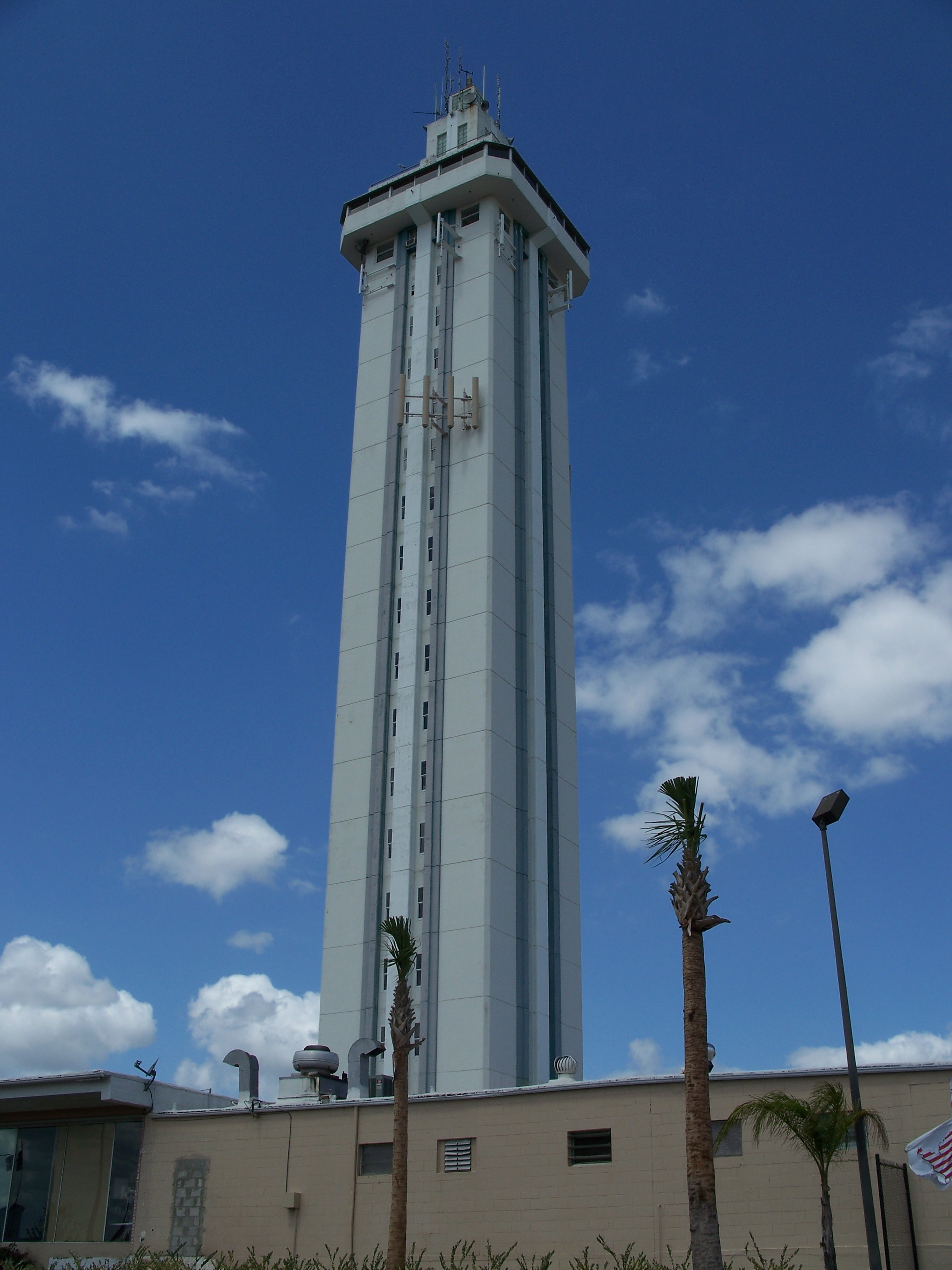 Citrus Tower, in Clermont, Florida